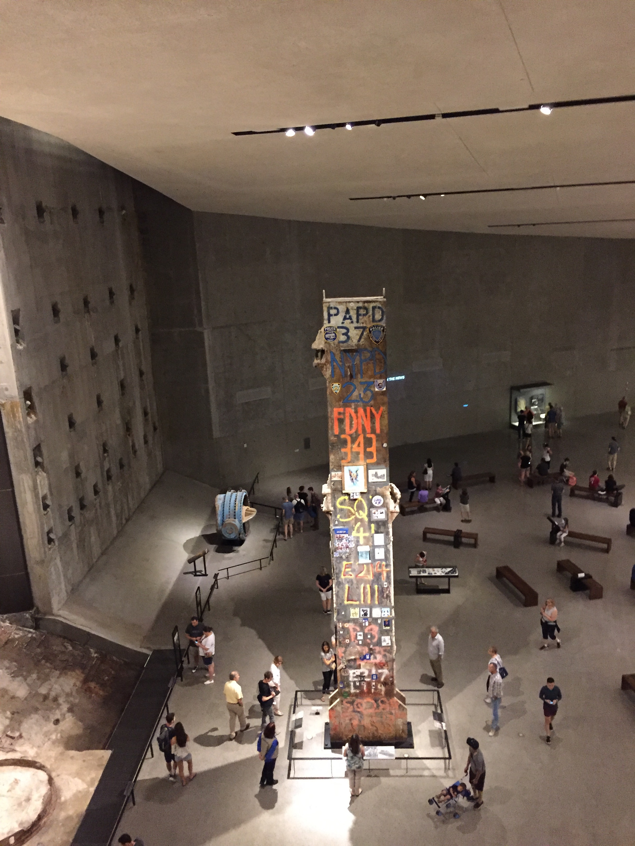 Last Column removed at the WTC Site